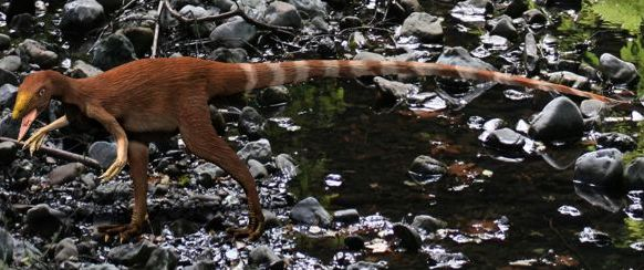 Sinosauropteryx